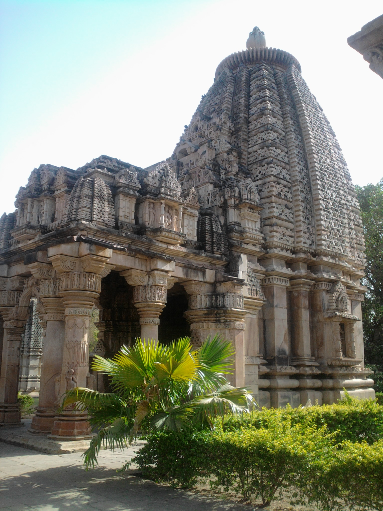 Baroli Temples at nearby Baroli village are one of the oldest temple complexes (9th century AD) in Rajasthan. The chief architect of the Baroli temples was from Orissa